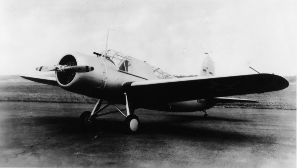 PictionID:40959911 - Catalog:Array - Title:Array - Filename:16_000186 Vought XOS2U-1 0951.tif - - Ray Wagner was Archivist at the San Diego Air and Space Museum for several years and is an author of several books on aviation --- ---Please Tag these images so that the information can be permanently stored with the digital file.---Repository: San Diego Air and Space Museum